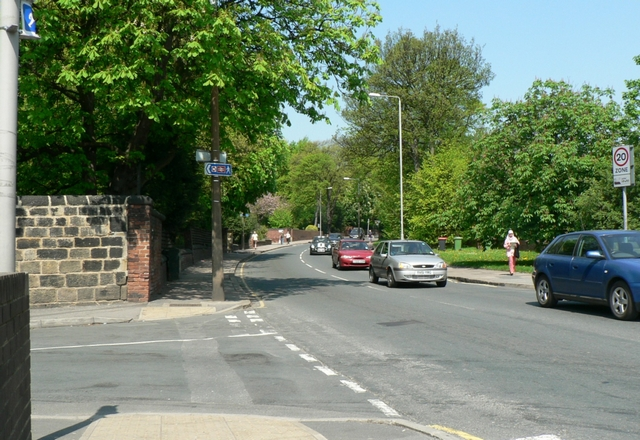 Cardigan Road, Headingley. With the junction of Cardigan Lane, which leads to Burley Park Station.